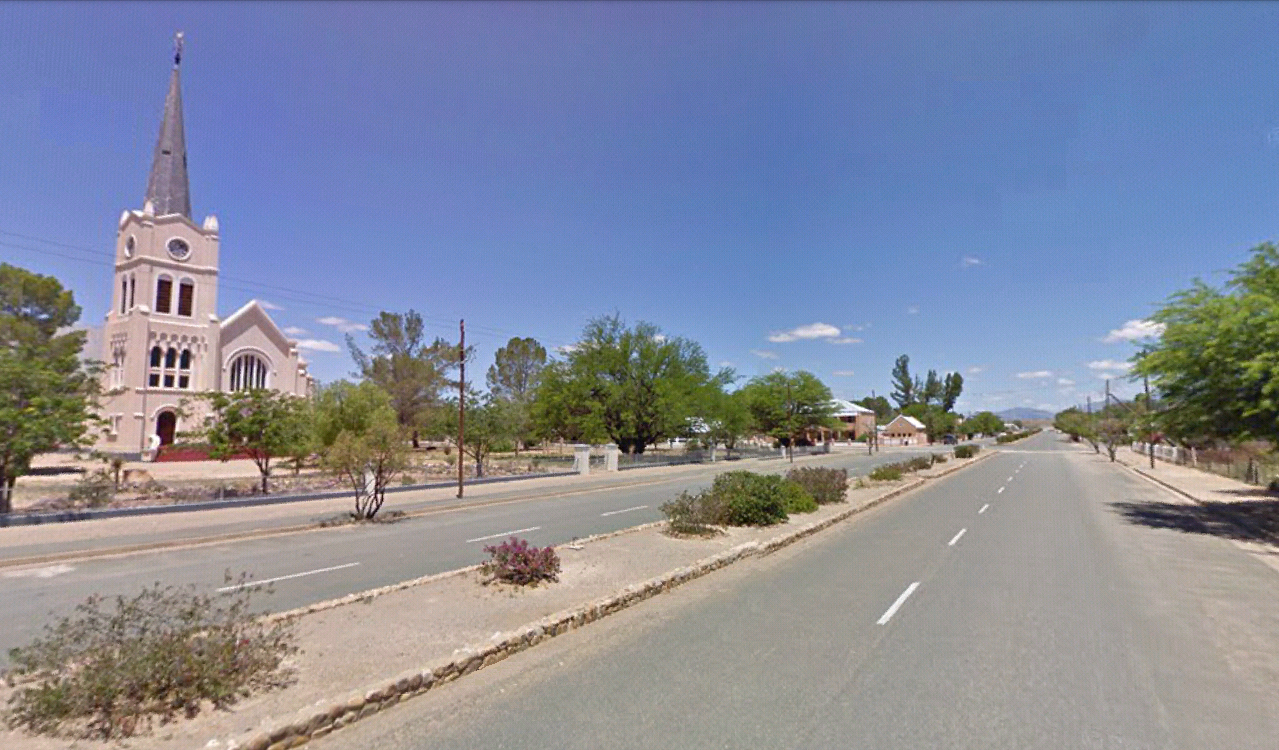 Looking south down Sarel Cilliers Street, Steytlerville